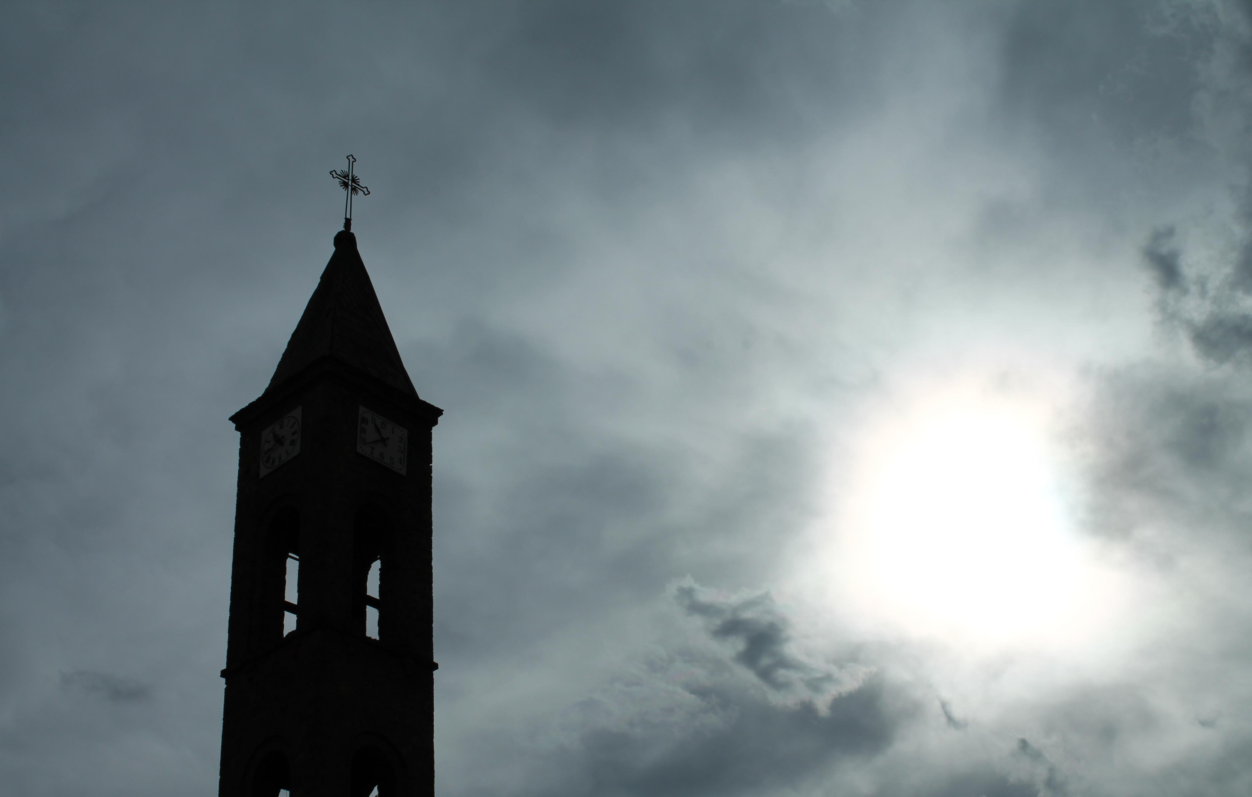 SahatKulla në Prizren